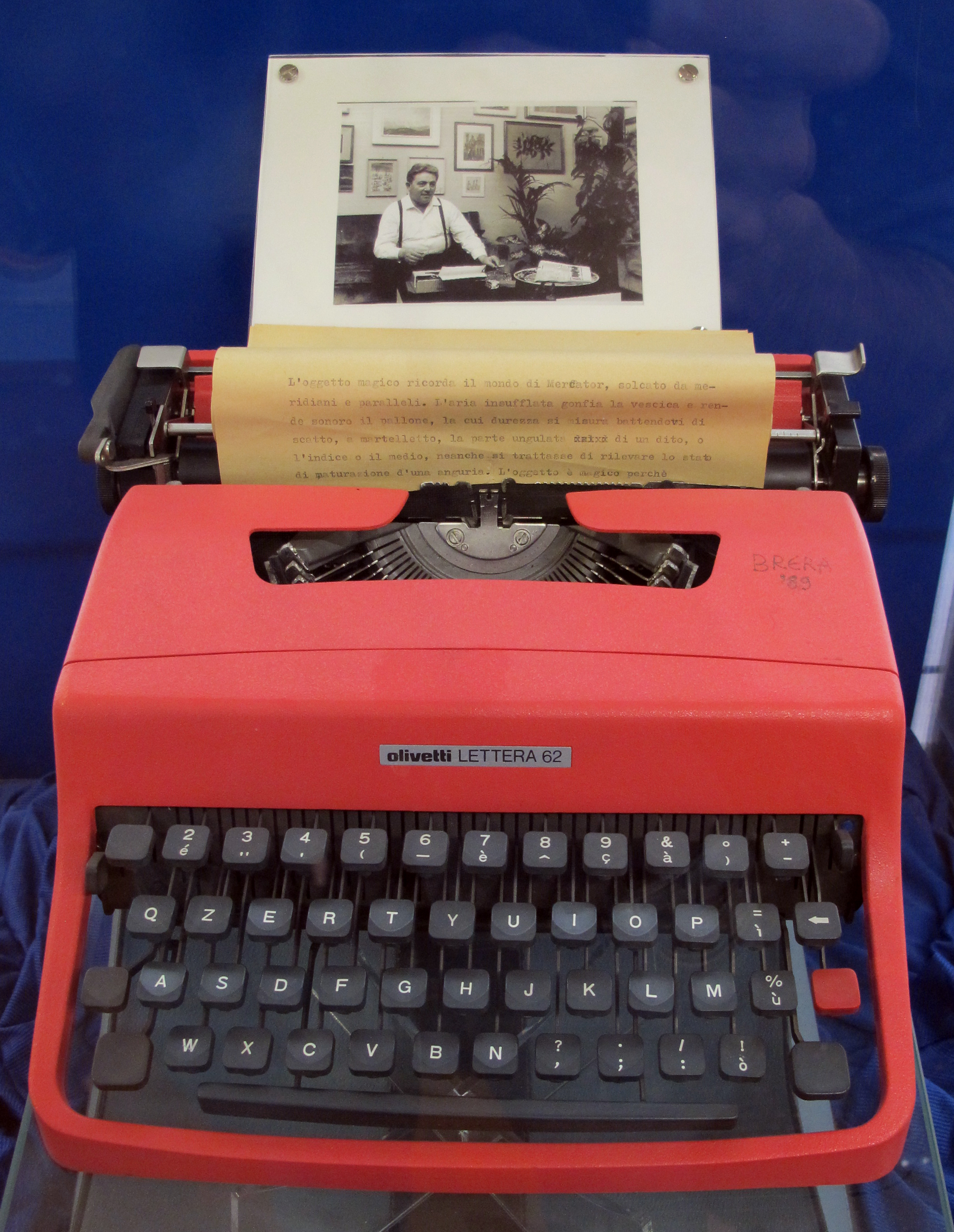 Collections of the Museo del Calcio (Florence)